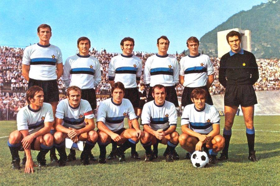 Line-up of Inter Milan at Stadio Giuseppe Sinigaglia for the match of 1970–71 Coppa Italia vs AC Como. Standing from left to right: Facchetti, Burgnich, Giubertoni, Landini, Fabbian, Vieri L.; crouched: Boninsegna, Mazzola S. (captain), Bertini, Frustalupi, Reif. Inter Milan went on to win 4-0.